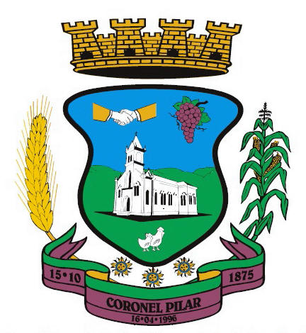 Coat of arms of the city of Coronel Pilar, Rio Grande do Sul, Brazil.